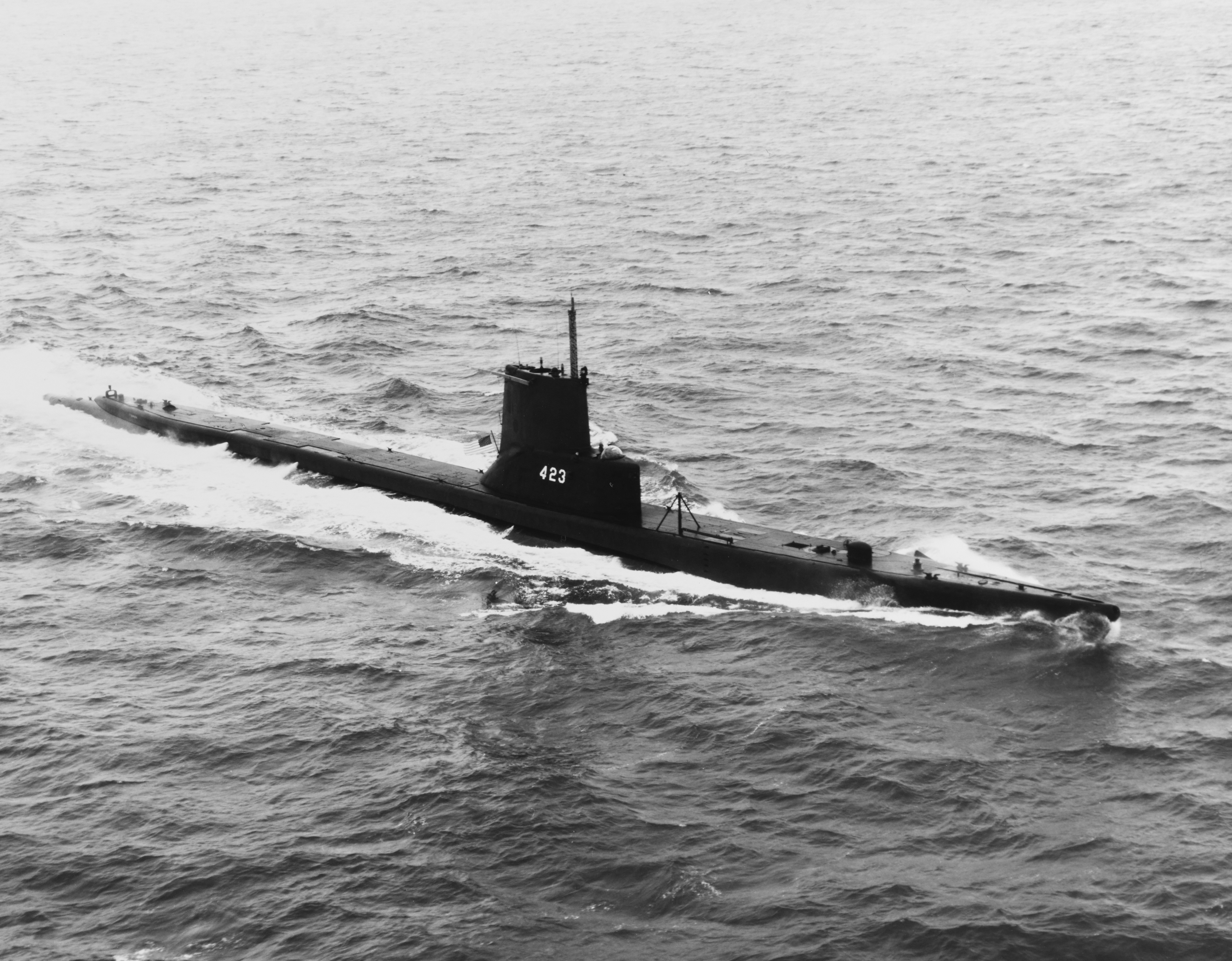 The United States submarine USS Torsk underway, 15 January 1965.